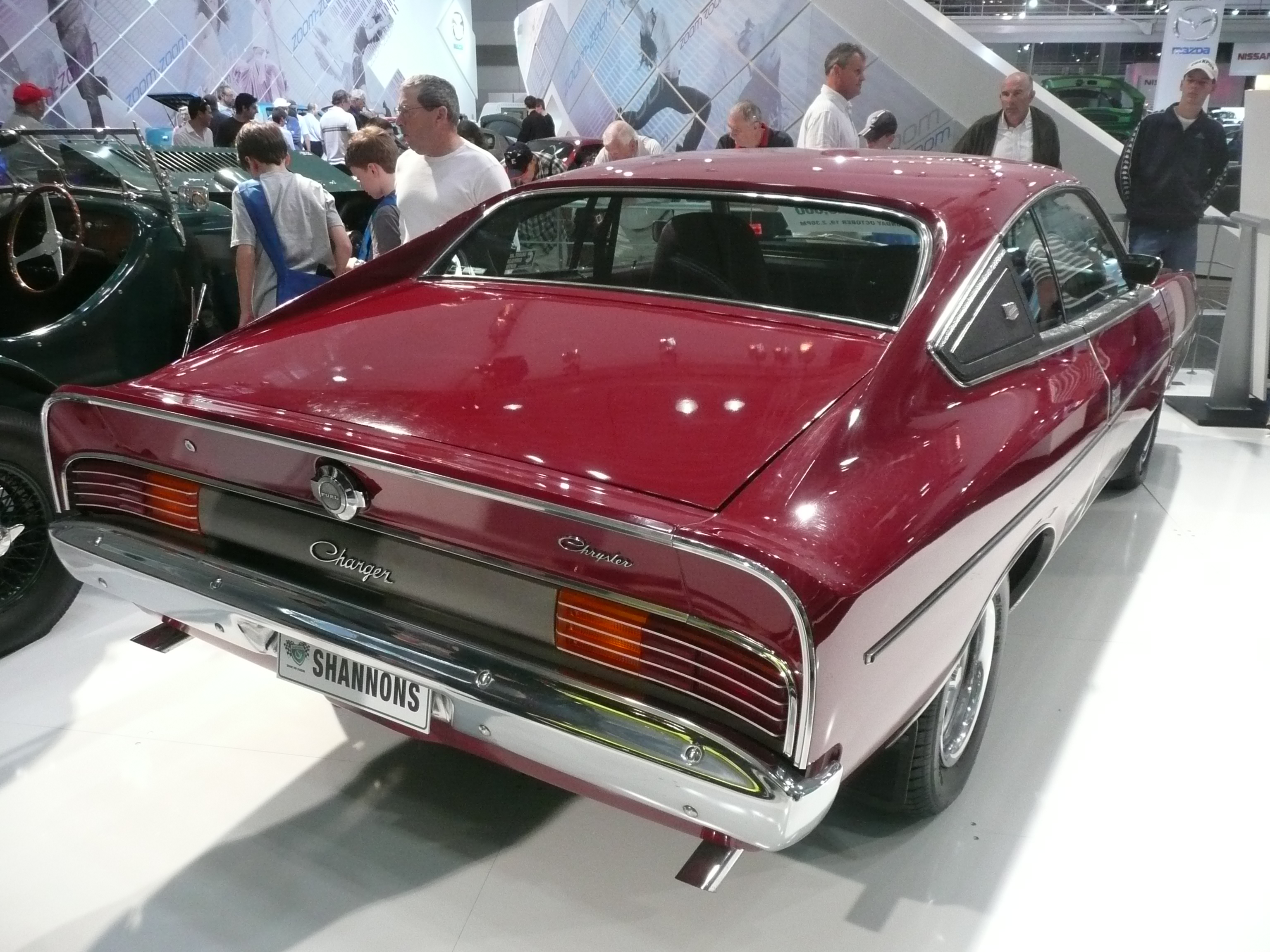 1976 Chrysler Charger (VK) 770 coupe. Photographed at the 2008 Australian International Motor Show, Sydney, New South Wales, Australia.